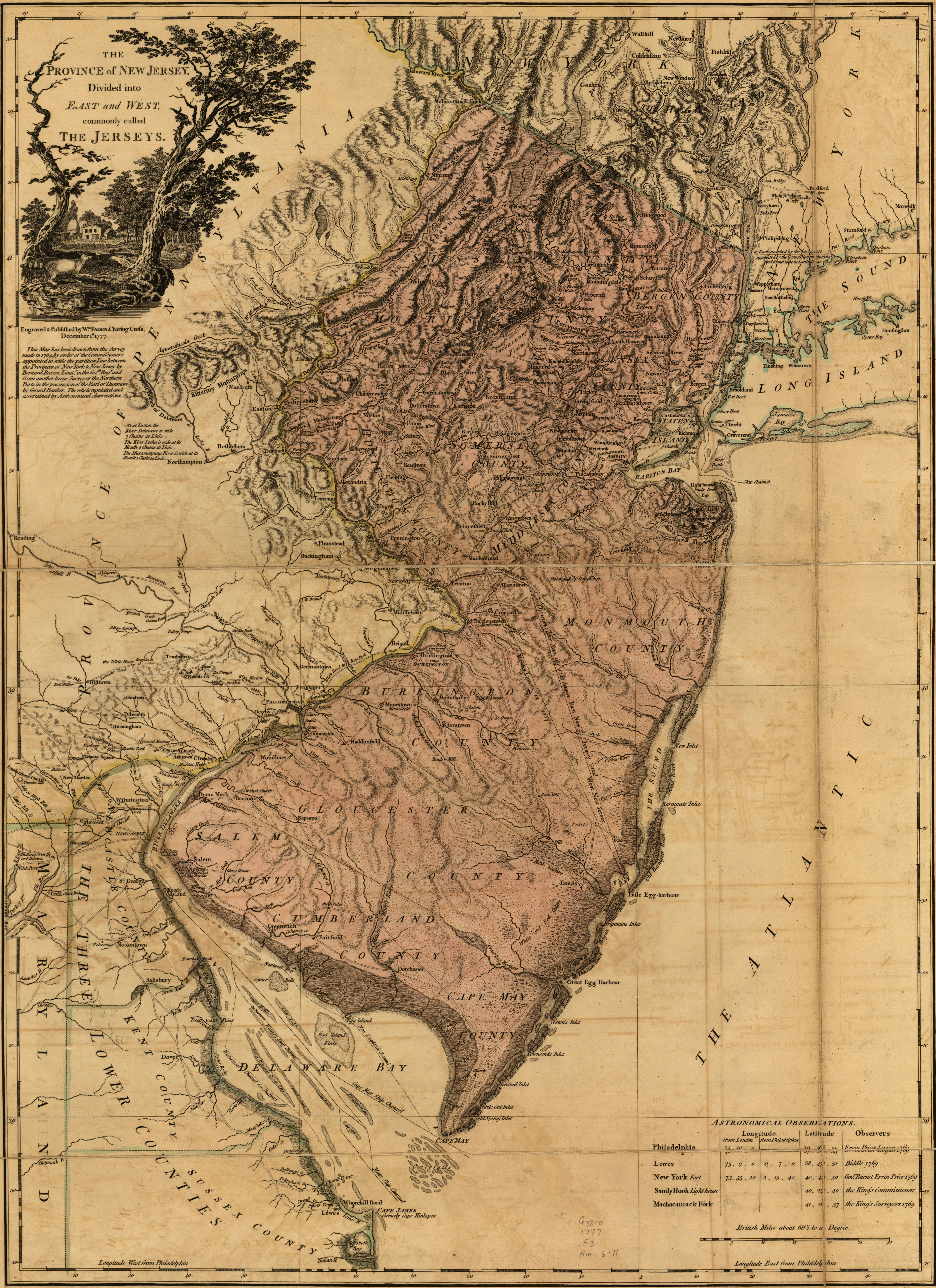 Scale ca. 1:420,000. Hand colored. LC copy 2 imperfect: Deteriorated in margins. Prime meridian: Philadelphia. Relief shown by hachures. Shows county boundaries and "Division line run in 1743 between East New Jersey and West New Jersey." "This map has been drawn from the survey made in 1769 ... by Bernard Ratzer ... and from another large survey of the northern parts ... by Gerard Banker." Appears in William Faden's The North American atlas. 1777. Includes table of "Astronomical observations." LC Maps of North America, 1750-1789, 1238 Available also through the Library of Congress Web site as a raster image. Includes table of "Astronomical observations." Vault AACR2: 100; 651/1; 651/2; 700/2